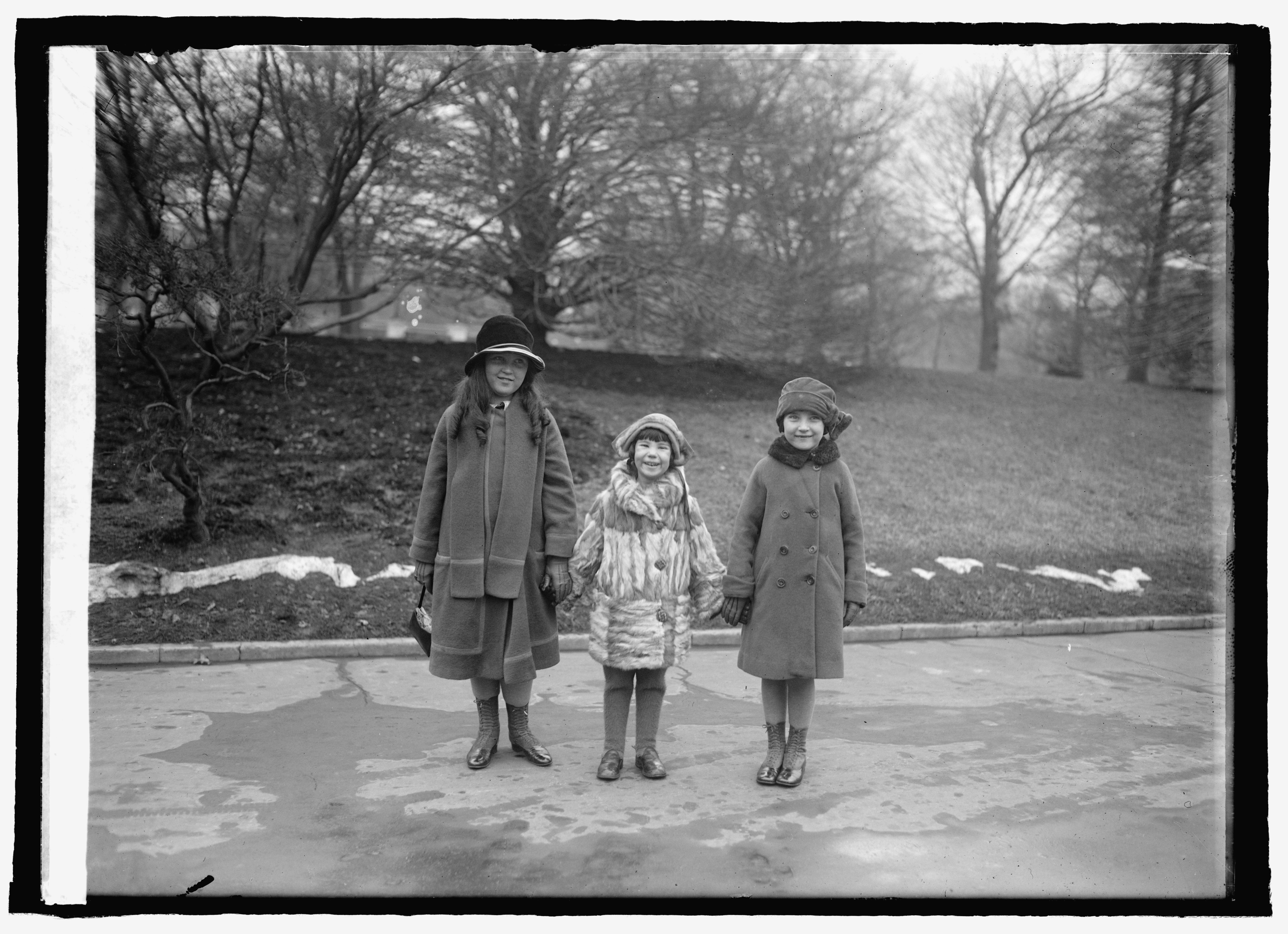 Title: Baby Peggy with Frances & Gene Quirk of N.Y. at W.H. [i.e., White House, Washington, D.C.], 2/2/25 Abstract/medium: 1 negative : glass ; 5 x 7 in. or smaller